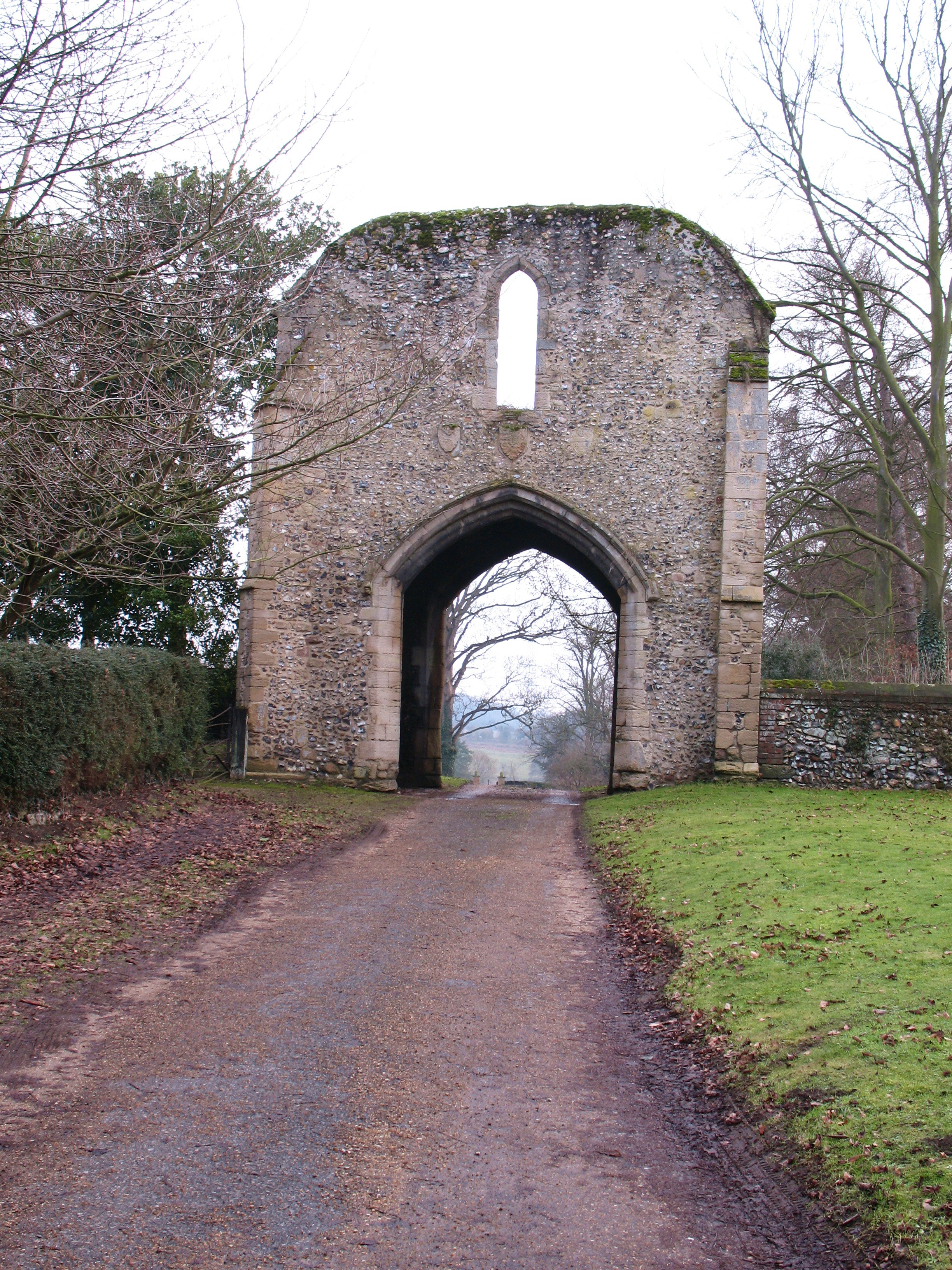 Gatehouse, West Acre Priory The gatehouse to the former Augustinian priory at West Acre, seen from the north.